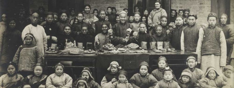 Group-of-Chinese-Christians-gathered-Christmas-China